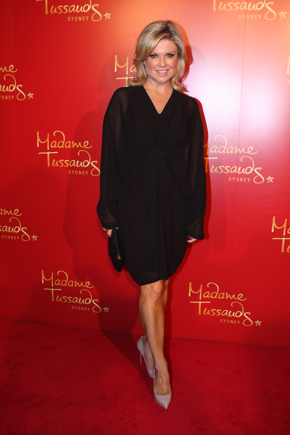 Actress Emily Symons at Madame Tussauds Sydney, Australia attending the unveiling of Ray Meagher's Waxwork